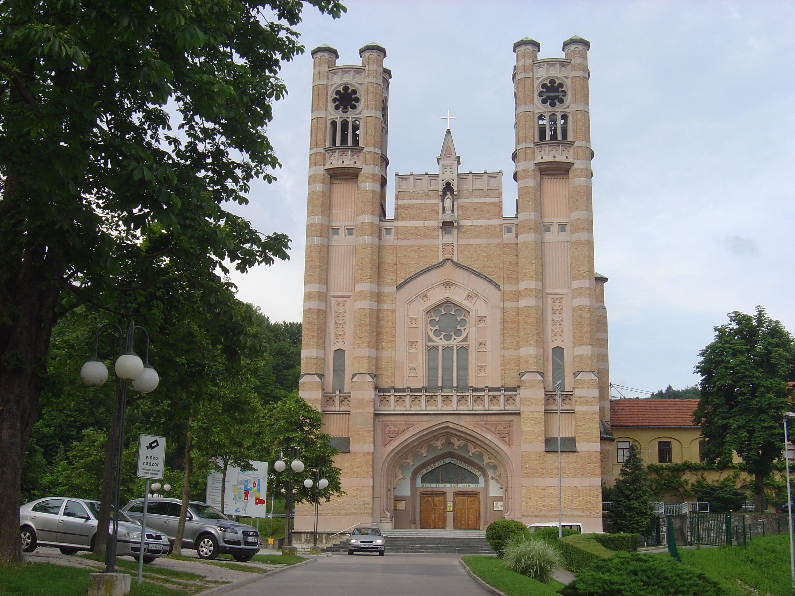 Ljubljana, Slovenia